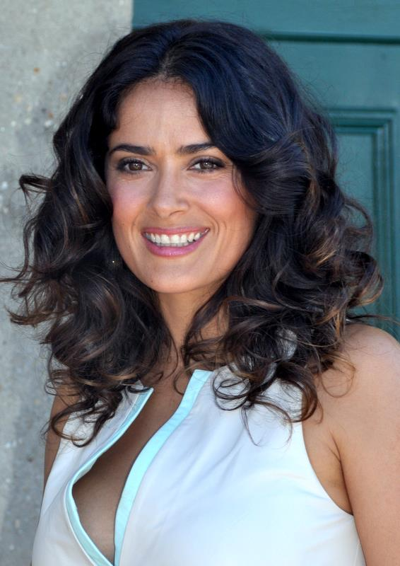 Salma Hayek at the Deauville Film Festival.